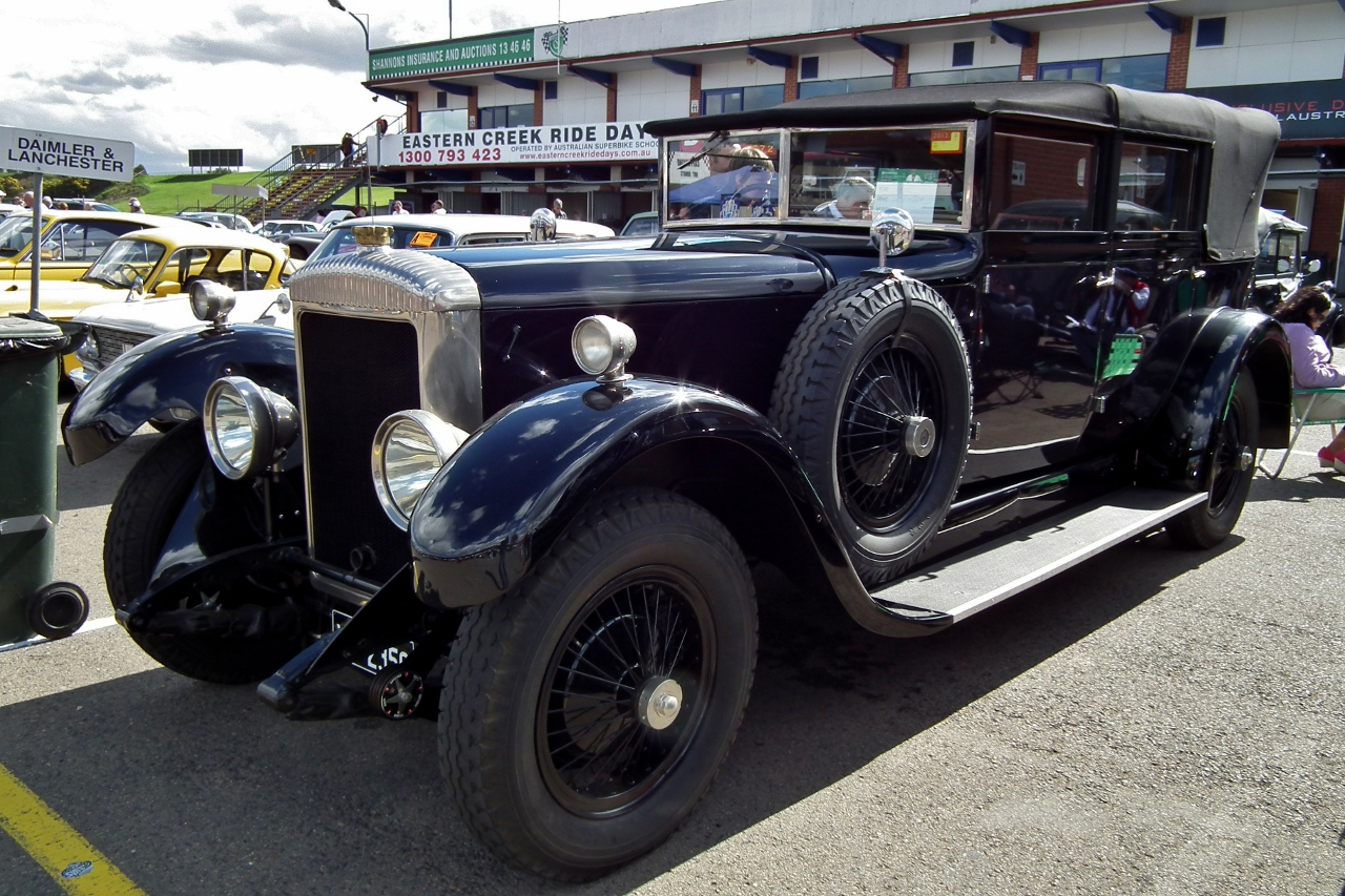 1928 Daimler 35/120 Landaulette